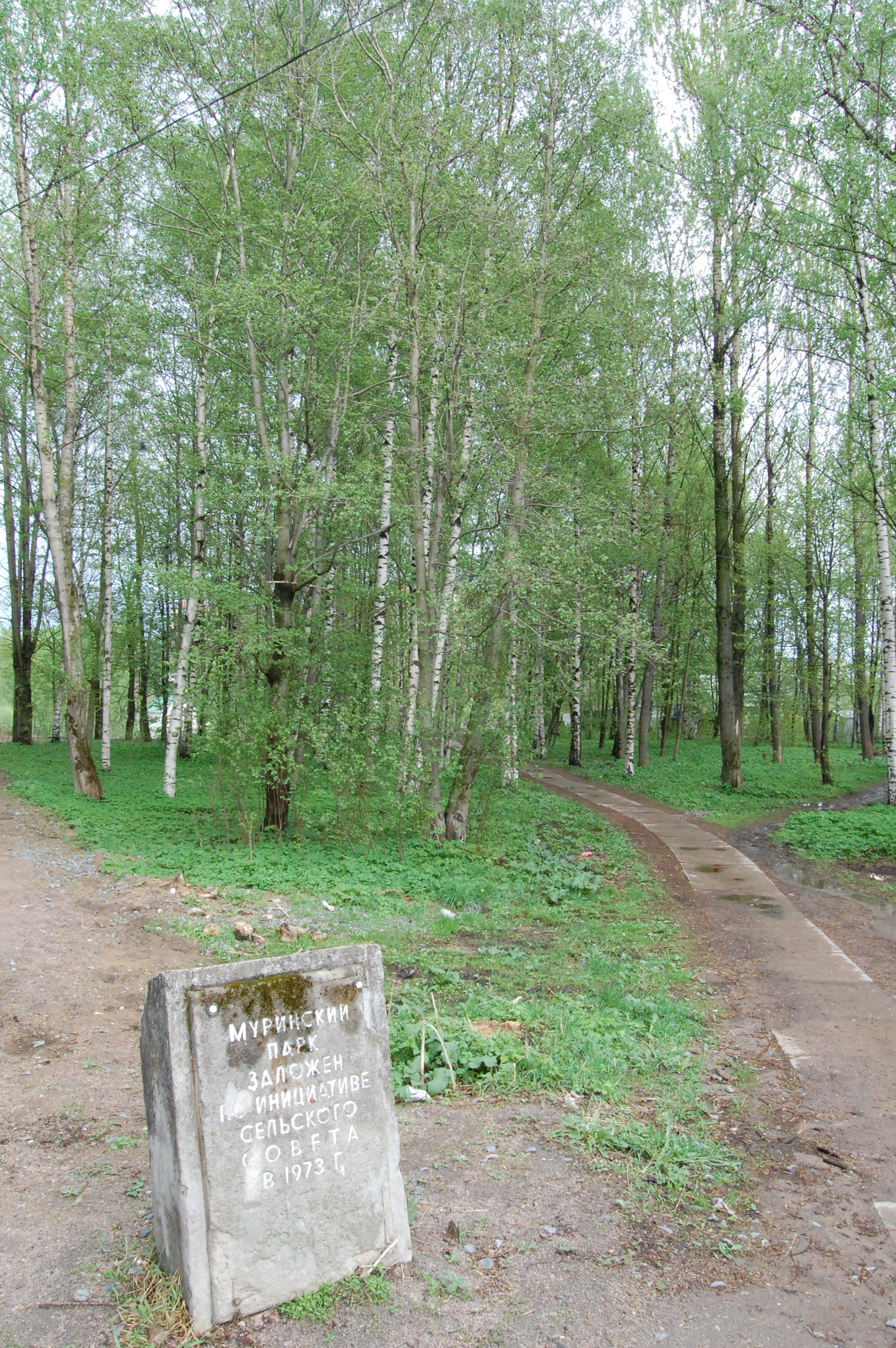 Murinsky Park in Devyatkino (Murino, Saint Petersburg) suburb.